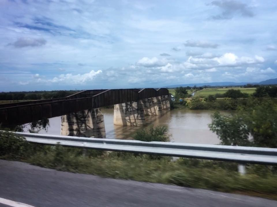 Khao Thap Khwai Railway, Lop Buri in 2017